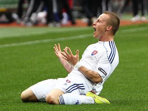 Miroslav Stoch scored against Russia